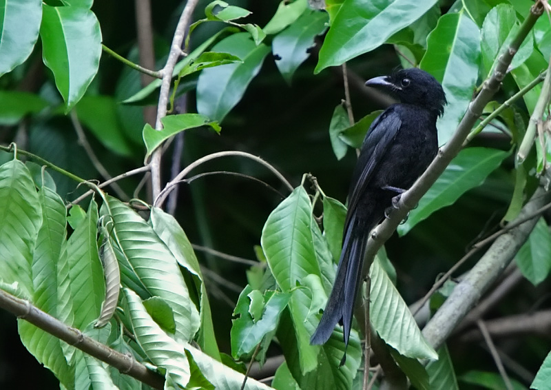 Andaman Drongo, Dicrurus andamanensis. Havelock Islands, Andaman and Nicobar Islands